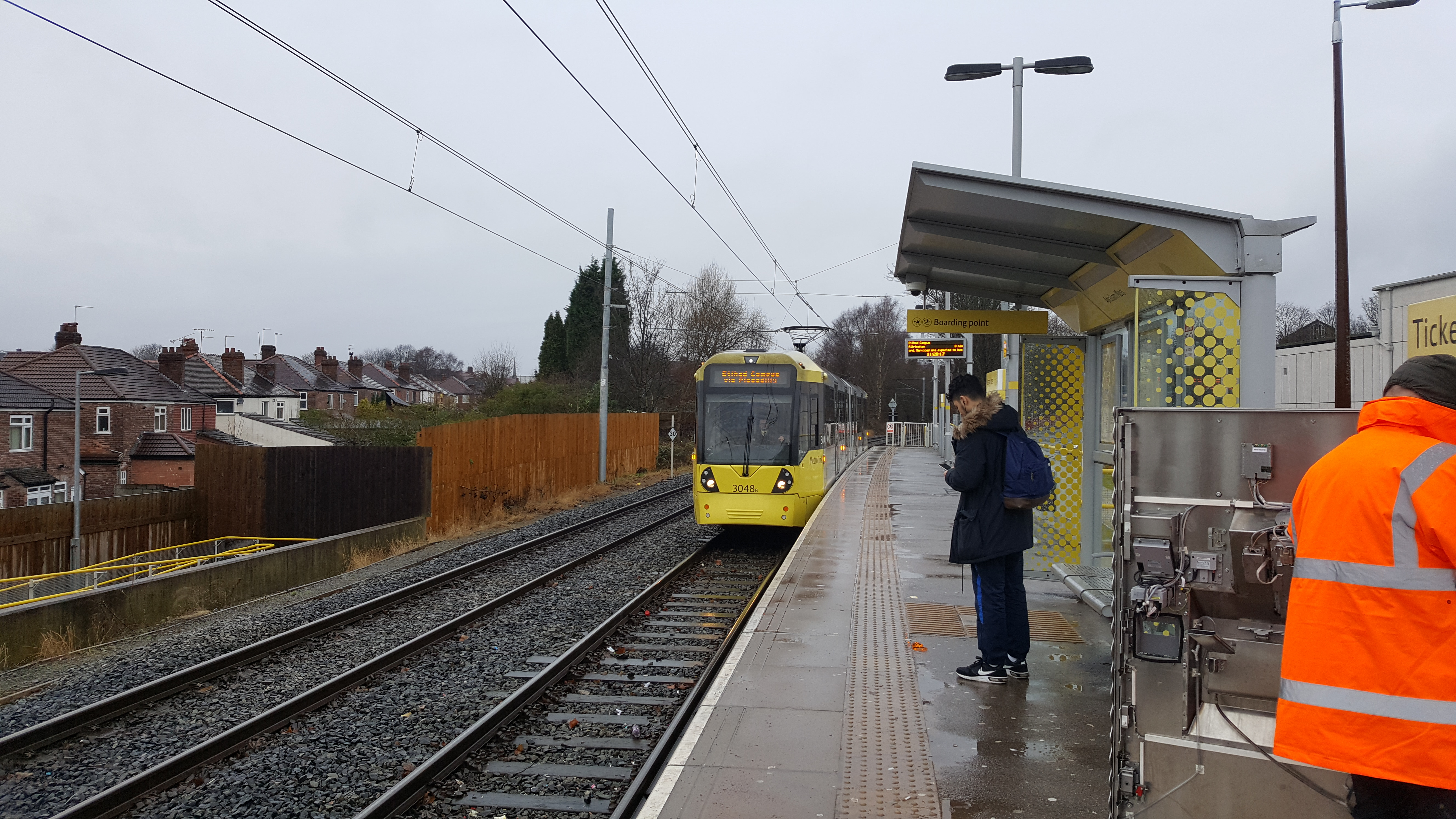 Abraham Moss tram stop with an M5000 arriving.